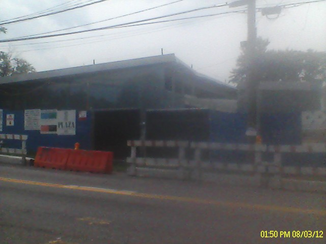 The Mariners' Harbor Library on South Avenue, under construction - Arlington, Staten Island.